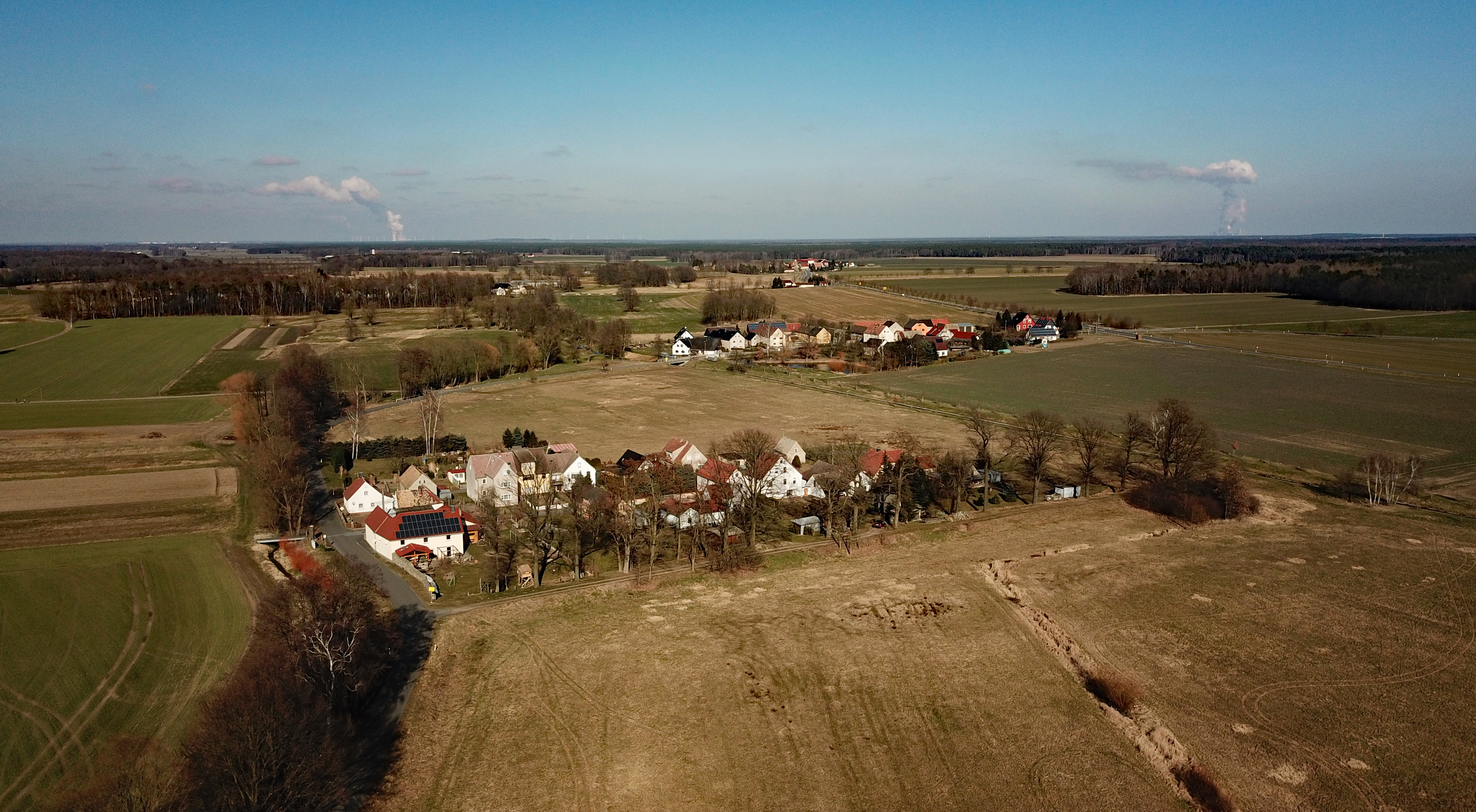 Teichhäuser (Räckelwitz, Saxony, Germany) Hornjoserbsce: Powětrowy wobraz Hatow